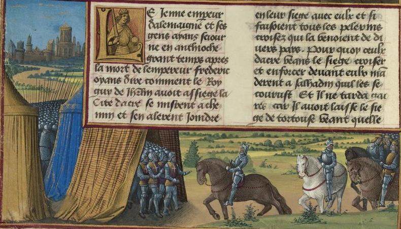 Miniature: Frederick V of Swabia arrives at Acre